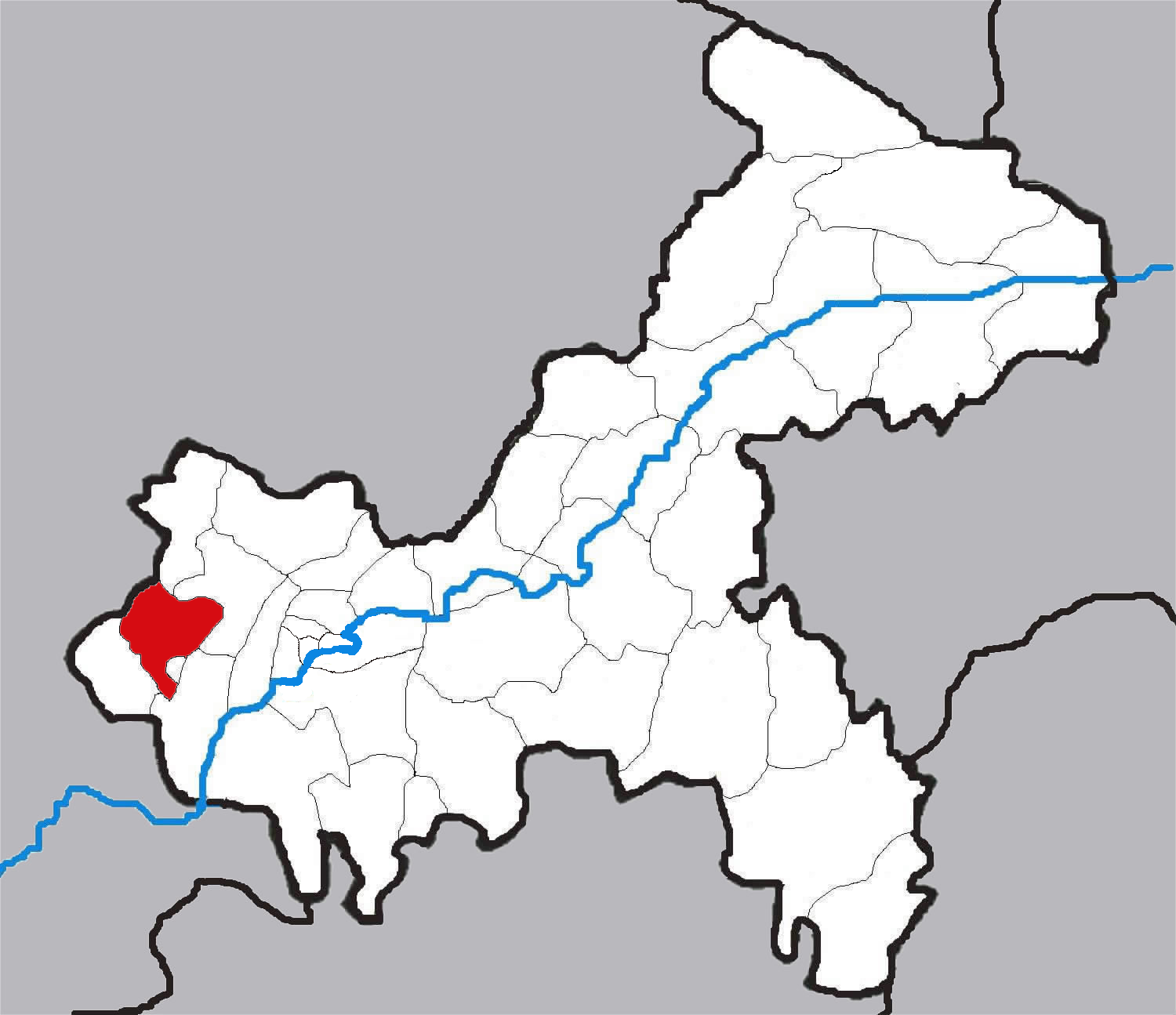 Administration maps of Chongqing, China